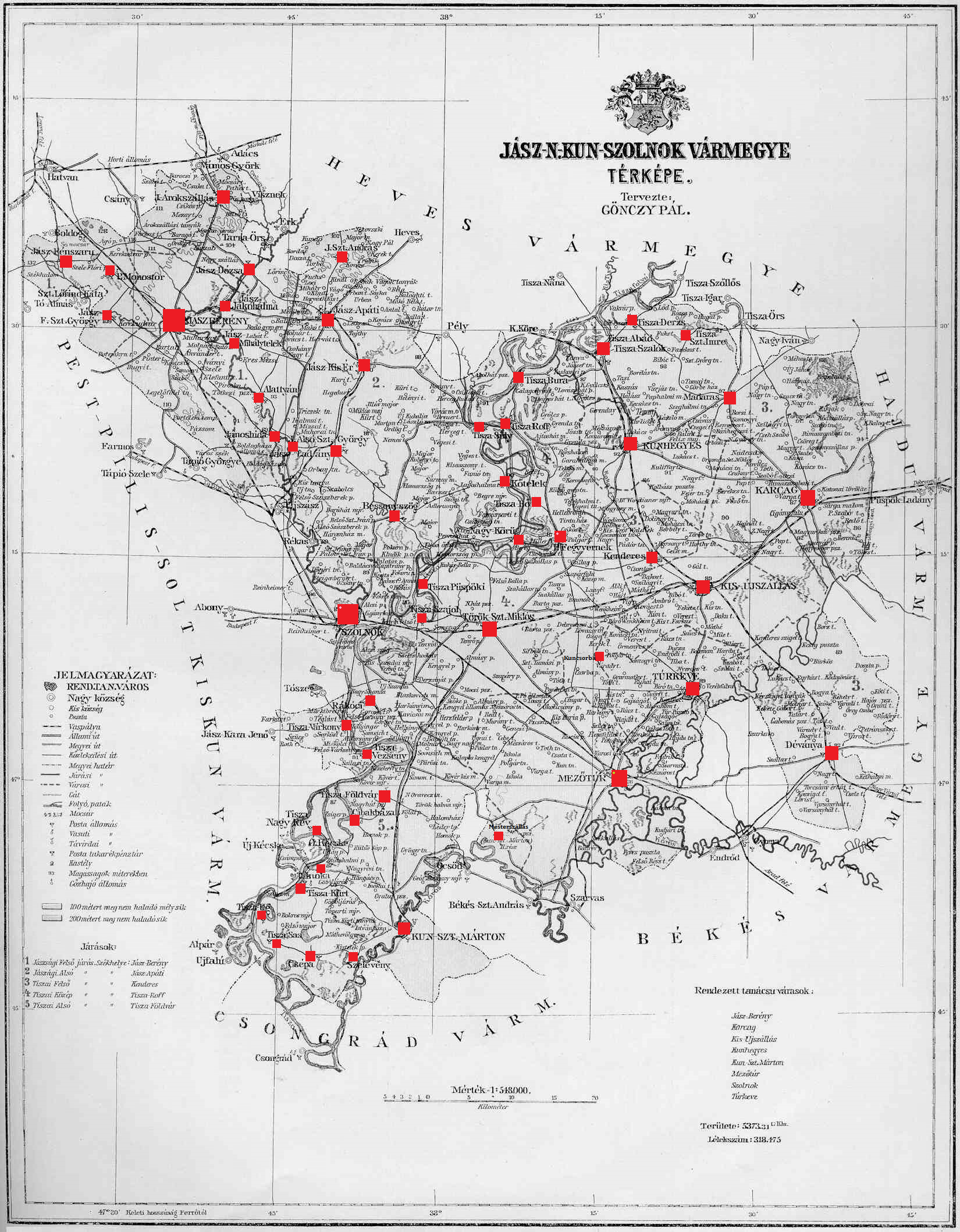 Ethhic map of the county (with data of the 1910 census). Key: red - Hungarians; pink - Germans; light green - Slovaks. Coloured dots in plain rectangles imply the presence of smaller minority populations (more than 100 people).